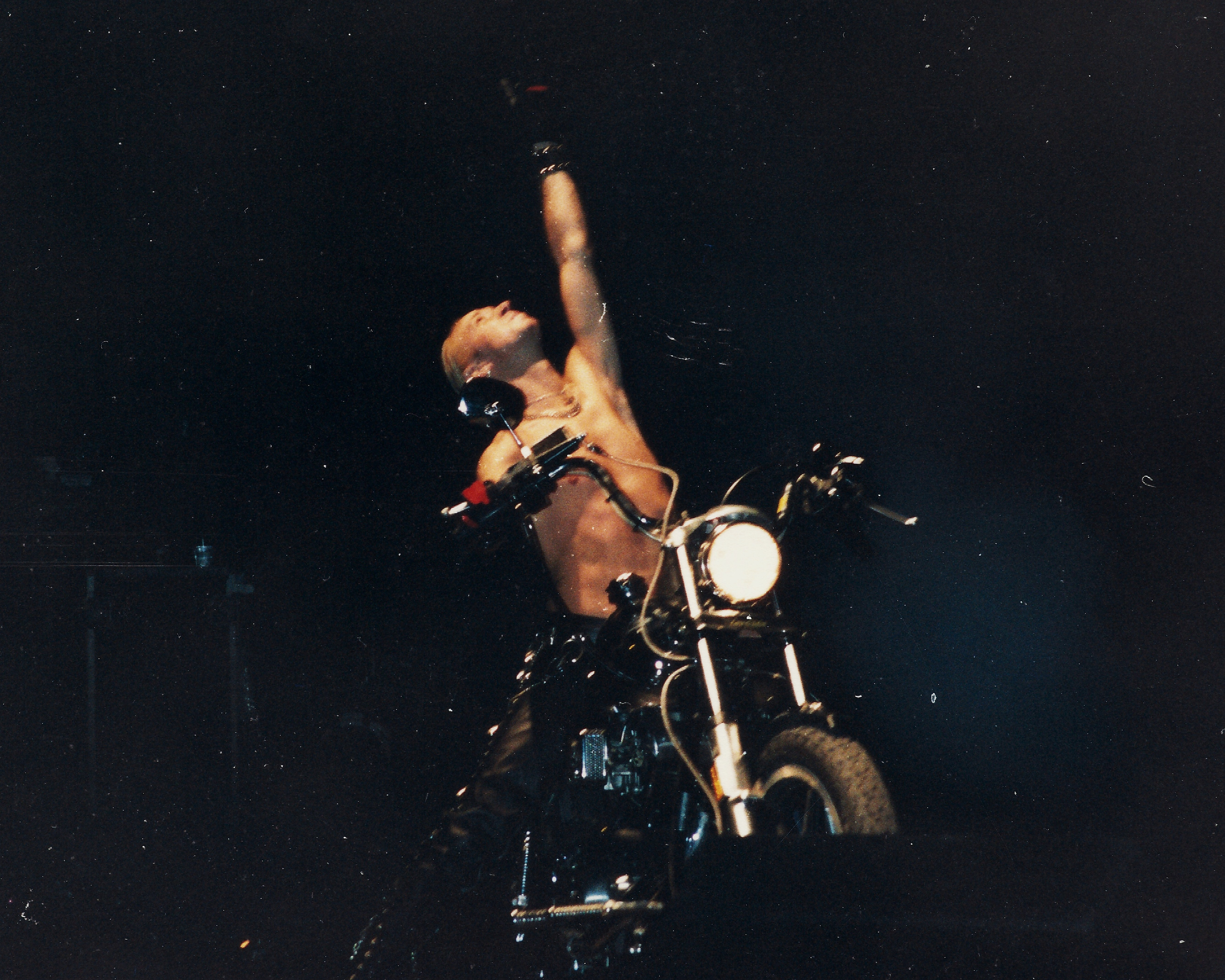 Rob Halford rides a motorbike onstage during a Judas Priest live performance at the Hammersmith Odeon, London, England on 14 June 1988.